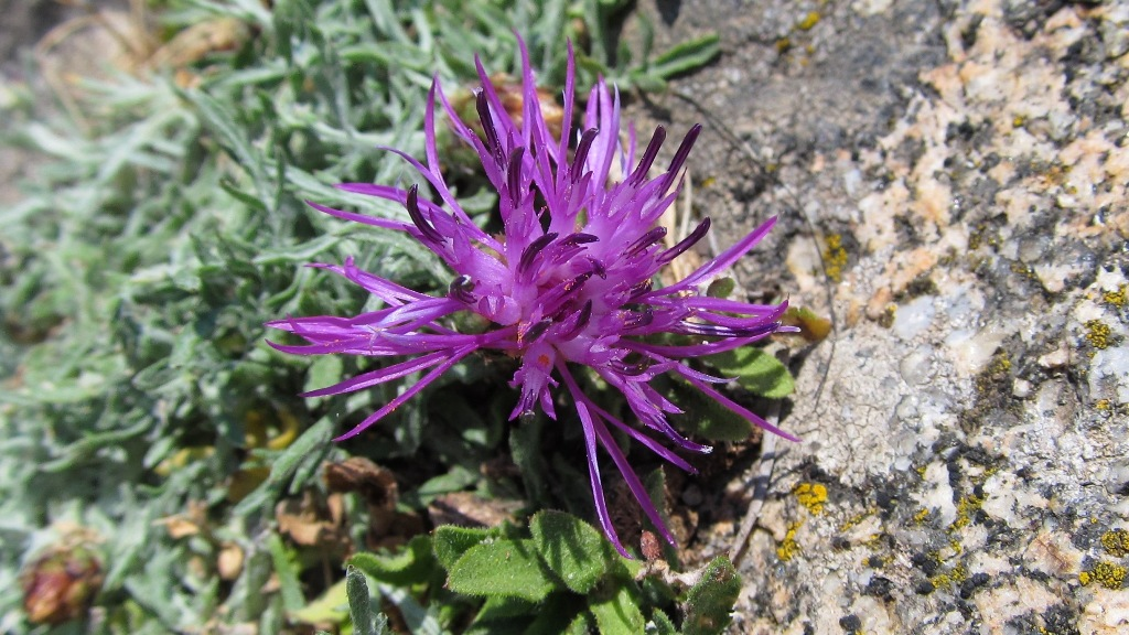 Centaurea dissecta var. ilvensis